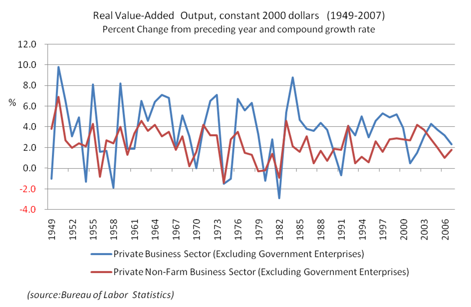 Real Value-Added Output vs preceding year (1949 - 2007)